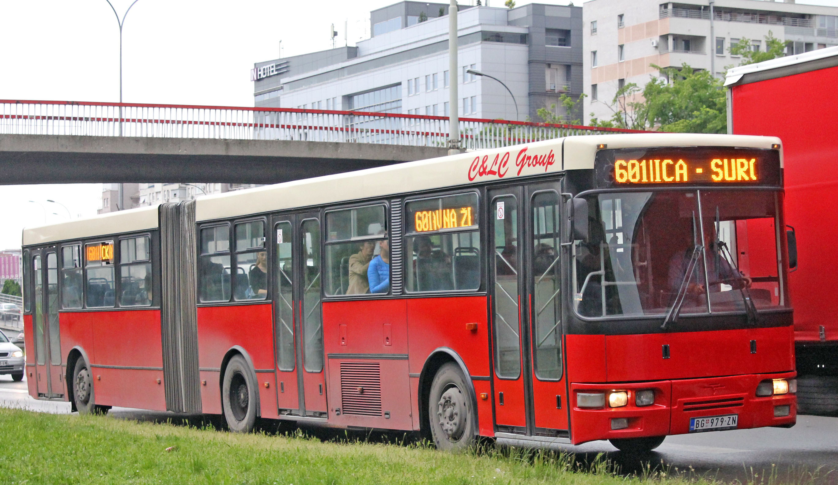 Ikarbus IK 201 articulated public city bus of C&LС private transport company from Belgrade on city bus line No. 601.